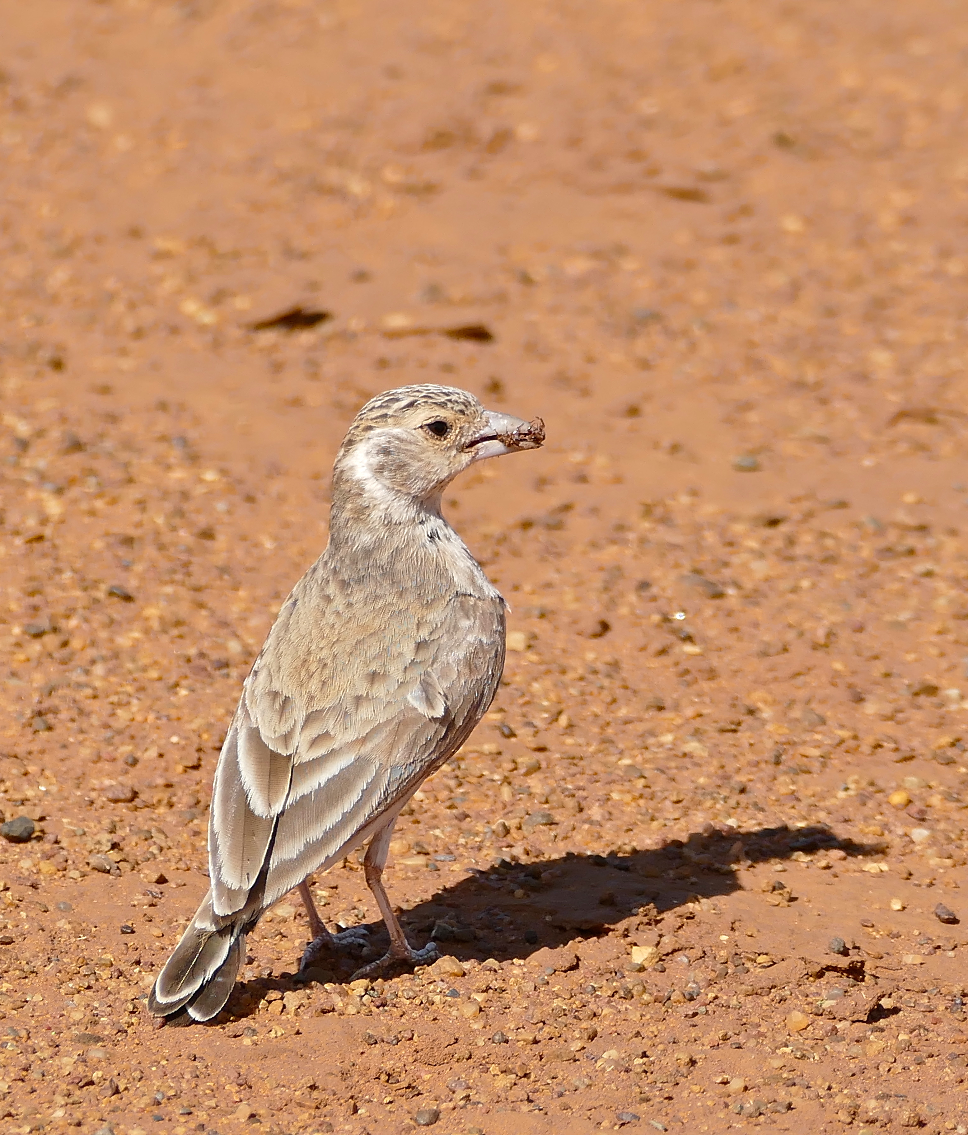 Lilydale Area, Mokala NP, Northern Cape, SOUTH AFRICA